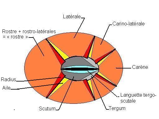 Barnacle (Balanu) wall and opercule